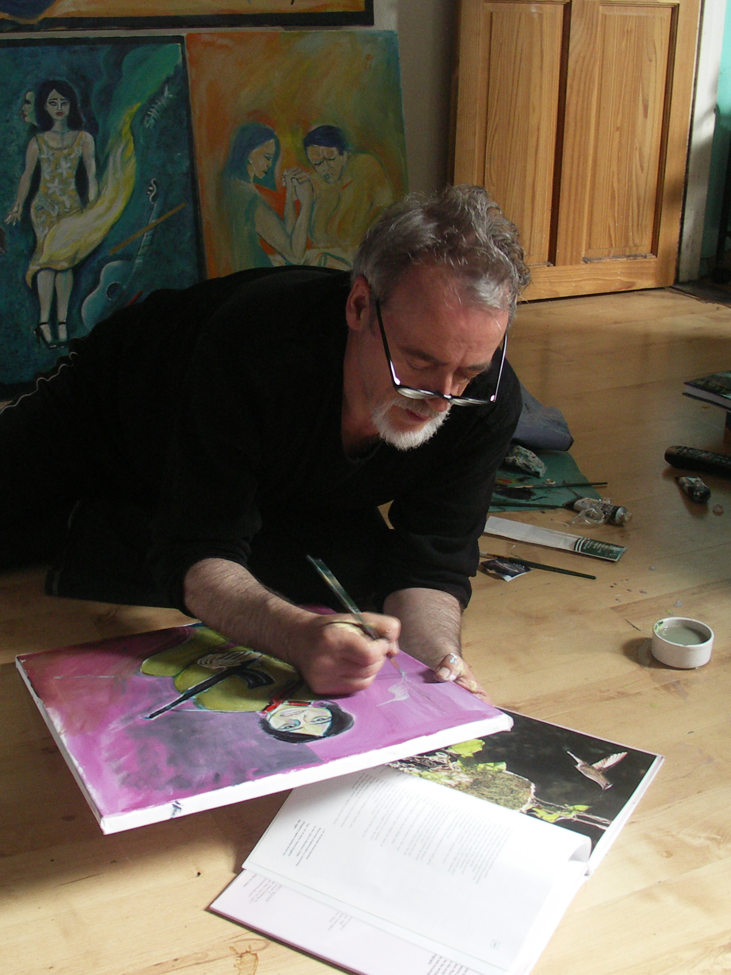 Photograph of Bill Lewis painting in his studio - taken by Ann Lewis